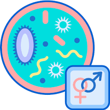 enfermedad transmision sexual